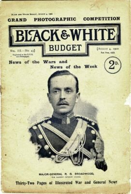 "Black & White Budget" weekly cover